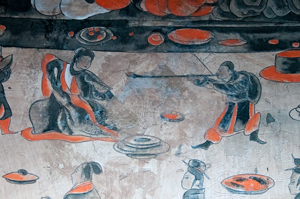 The Dahuting Tomb (Chinese: 打虎亭汉墓, Pinyin: Dahuting Han mu; Wade-Giles: Tahut'ing Han mu) of the late Eastern Han Dynasty (25-220 AD), located in Zhengzhou, Henan province, China, was excavated in 1960-1961 and contains vault-arched burial chambers decorated with murals showing scenes of daily life. For further information, see the Baidu article (in Chinese): 打虎亭汉墓. Click here for more pictures and a step-by-step walkthrough of the tomb, from the outside, down a stairwell, and through the vaulted burial chambers.